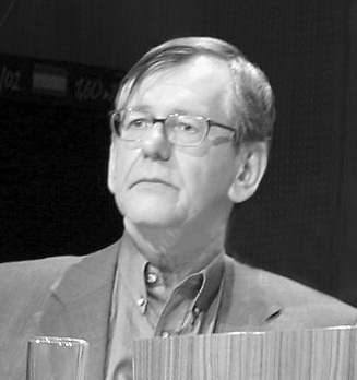 Herbert Feuerstein, German comedian, at WDR studio Cologne "Literaturmarathon"